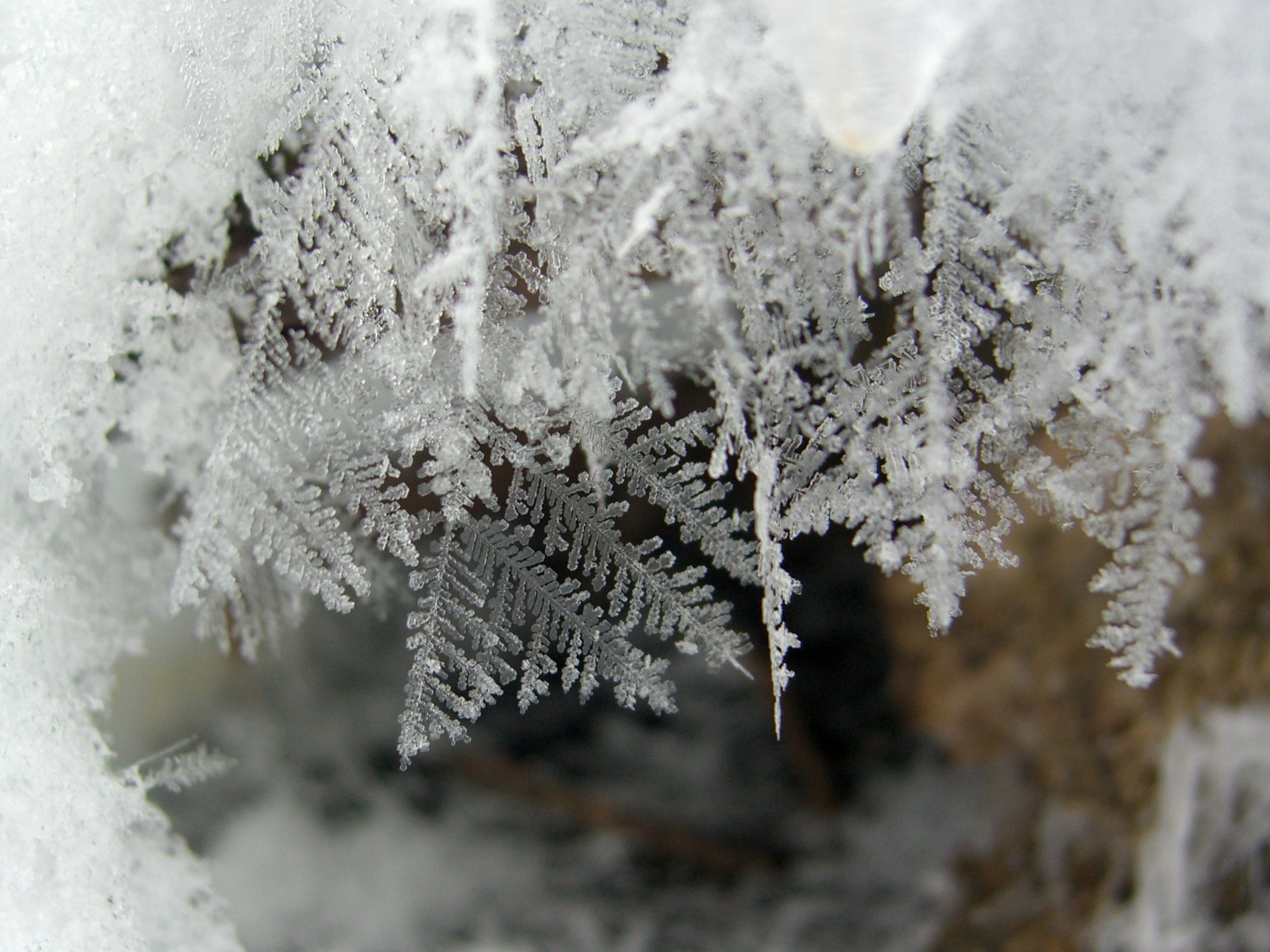 Clearwater, BC, 20080123